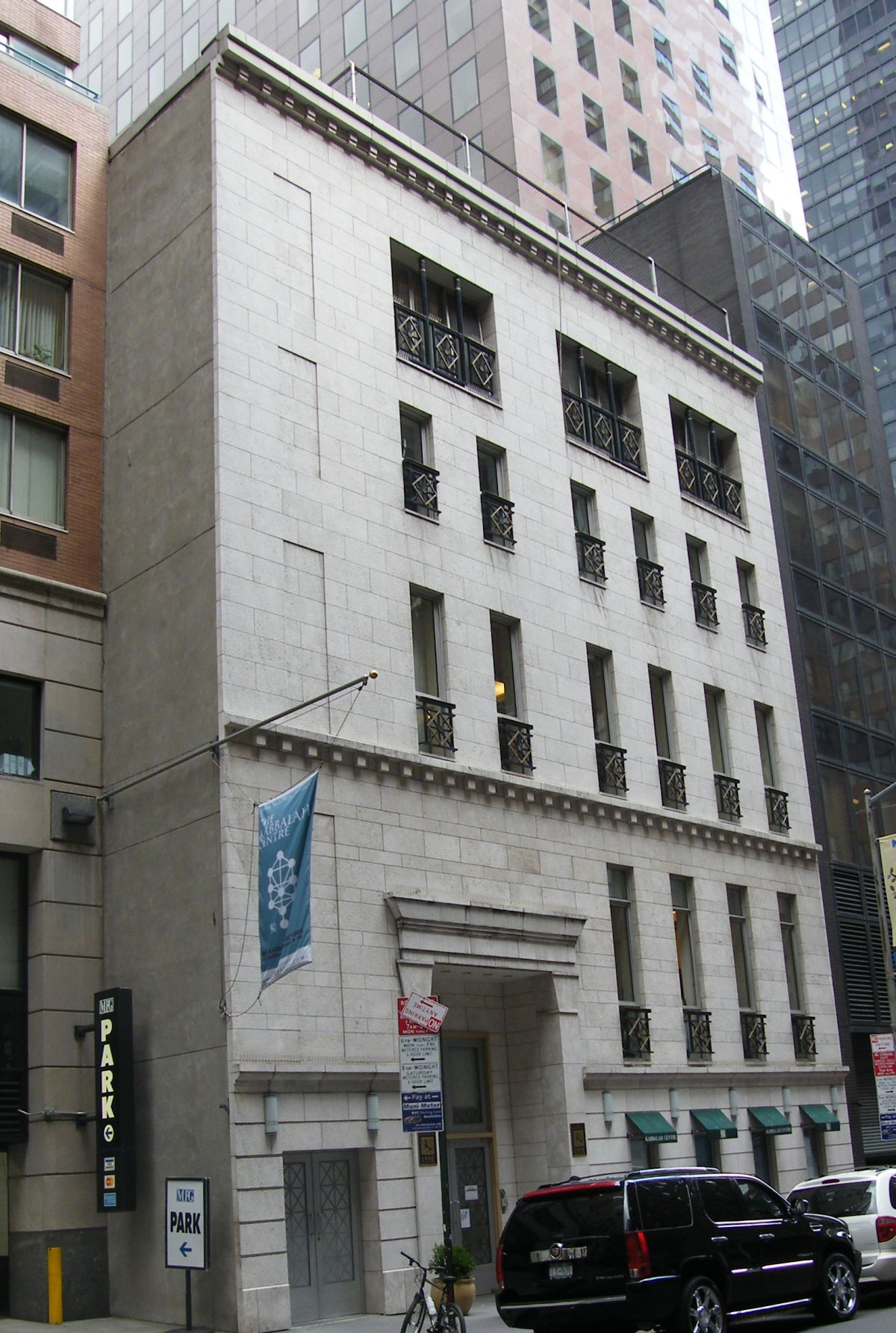 Kaballah Center in New York City